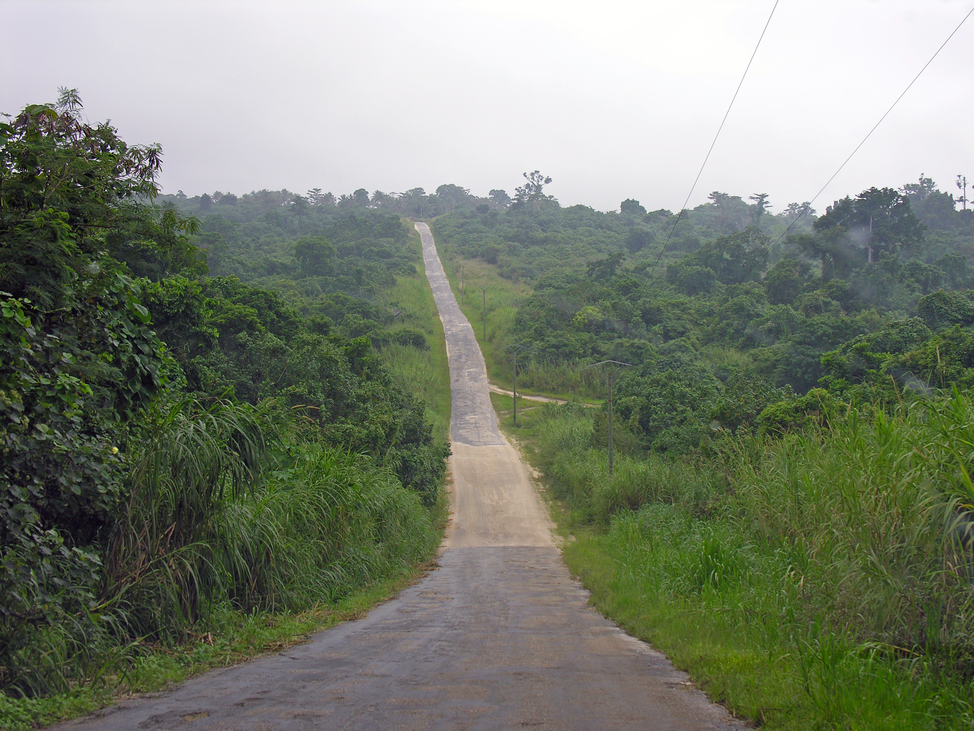 Main highway of Éfaté Island, near Klem's Hill, in Vanuatu. 5 June 2006